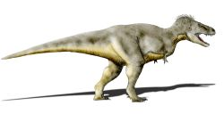 Tyrannosaurus